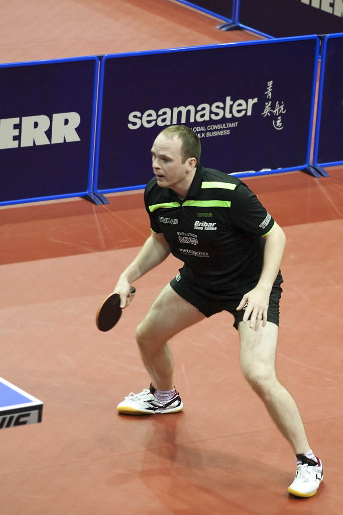 ITTF World Tour 2017 German Open, Magdeburg, Germany, 7 Nov 2017 - 12 Nov 2017, Paul Drinkhall